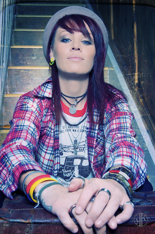 Scottish singer/songwriter and ex-frontwoman for Speedway.